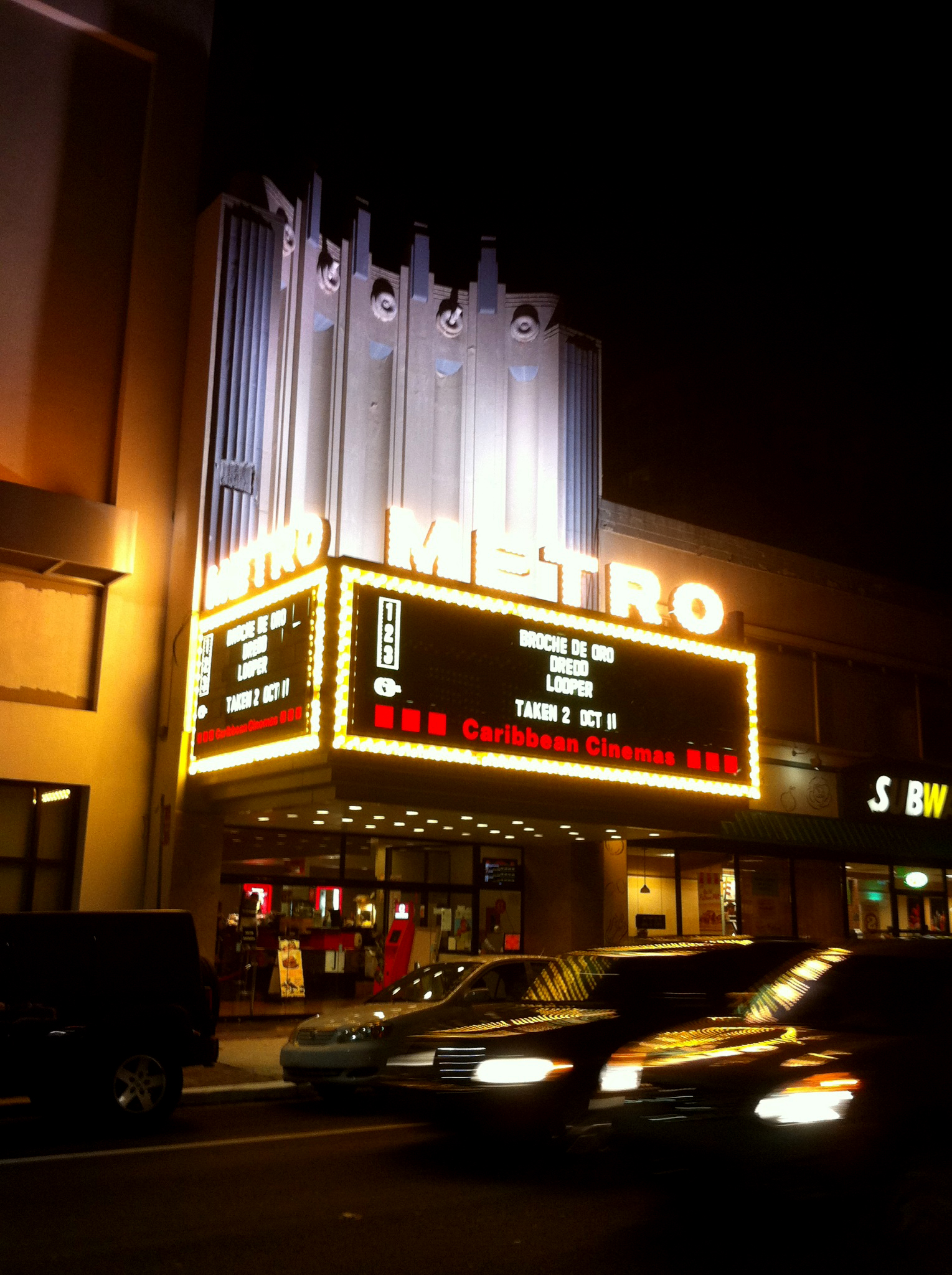 Metro Cinema movie theater that survived video days